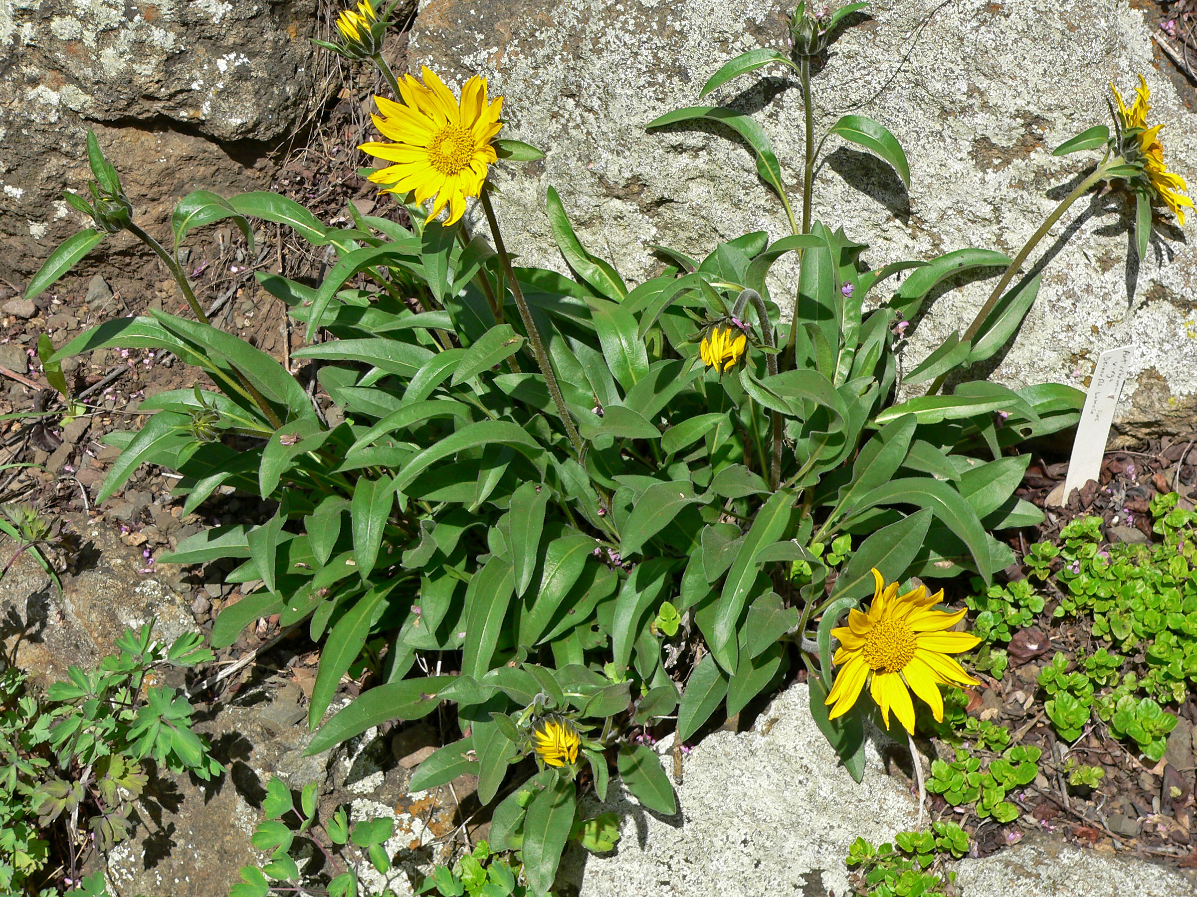 Photo of Helianthella castanea at the Regional Parks Botanic Garden, Berkeley, California